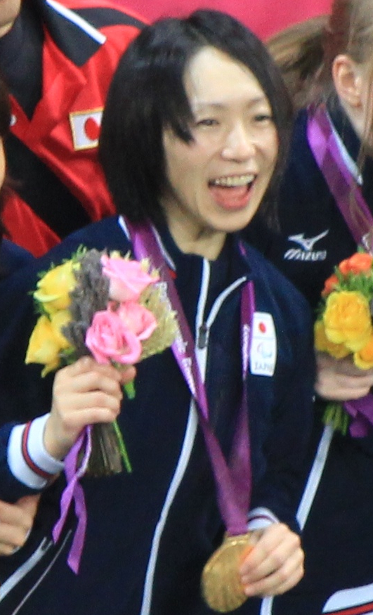 Rie Urata